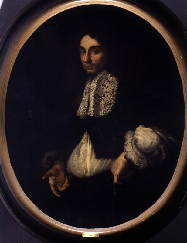 The painting entered the Cariplo Collection with the incorporation of the IBI Collection as the work of an unknown 17th-century painter and was published as such in the catalogue of 1995. The description of the canvas in the catalogue of 1998 suggests an attribution to Giovanni Bernardo Carbone, a Genoese artist and pupil of Giovanni Andrea de Ferrari but above all a follower and emulator of Anton Van Dyck, whose stay in Genoa from 1621 to 1627 left a deep imprint on the art of the Liguria region. Carbone was influenced by the Dutch artist in his many portraits, where he displayed marked technical skill above all in the rendering of fabrics and decoration. The Cariplo Foundation painting constitutes a significant example of his art in the virtuoso depiction of the lace of the shirt and the sumptuous collar. Interest attaches to the construction of the painting, with the left elbow projecting forward to create the space and the right shoulder slightly backwards. The painter offers a naturalistic portrayal of the young man, depicted in an informal attitude with an intense gaze directed towards the viewer as though in a dialogue, as suggested also by the gesture of the right hand. One of the closest terms of comparison appears to be the Portrait of a Prelate in the gallery of the Palazzo Reale in Genoa, dated some time between 1660 and 1680, the same period as the Caroplo oval, and the Portrait of a Gentleman in the Wallace Collection, London, where a similar movement of the hand can be seen [1].